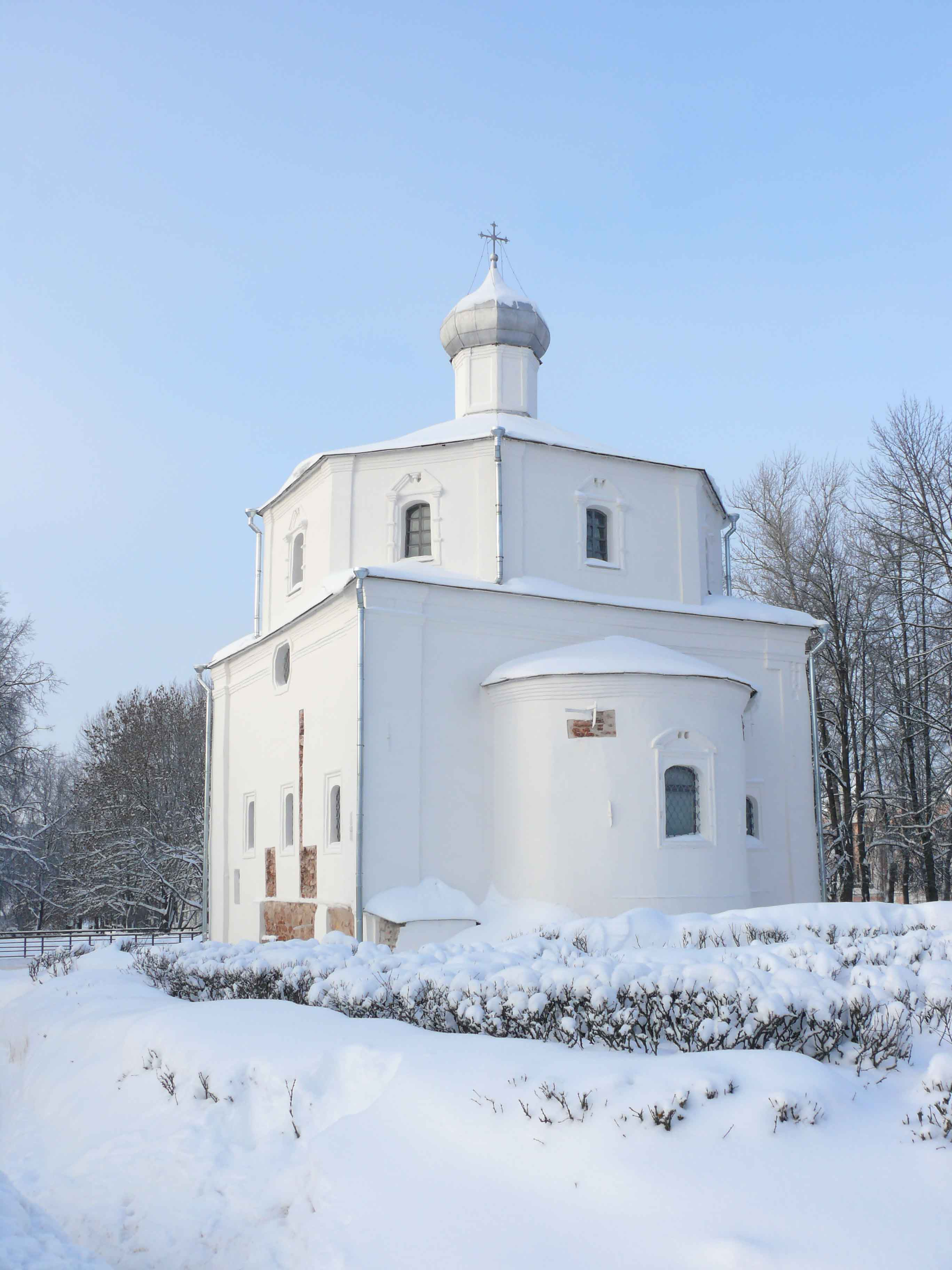 St. George na Torgu chuurche. Veliky Novgorod, Russia